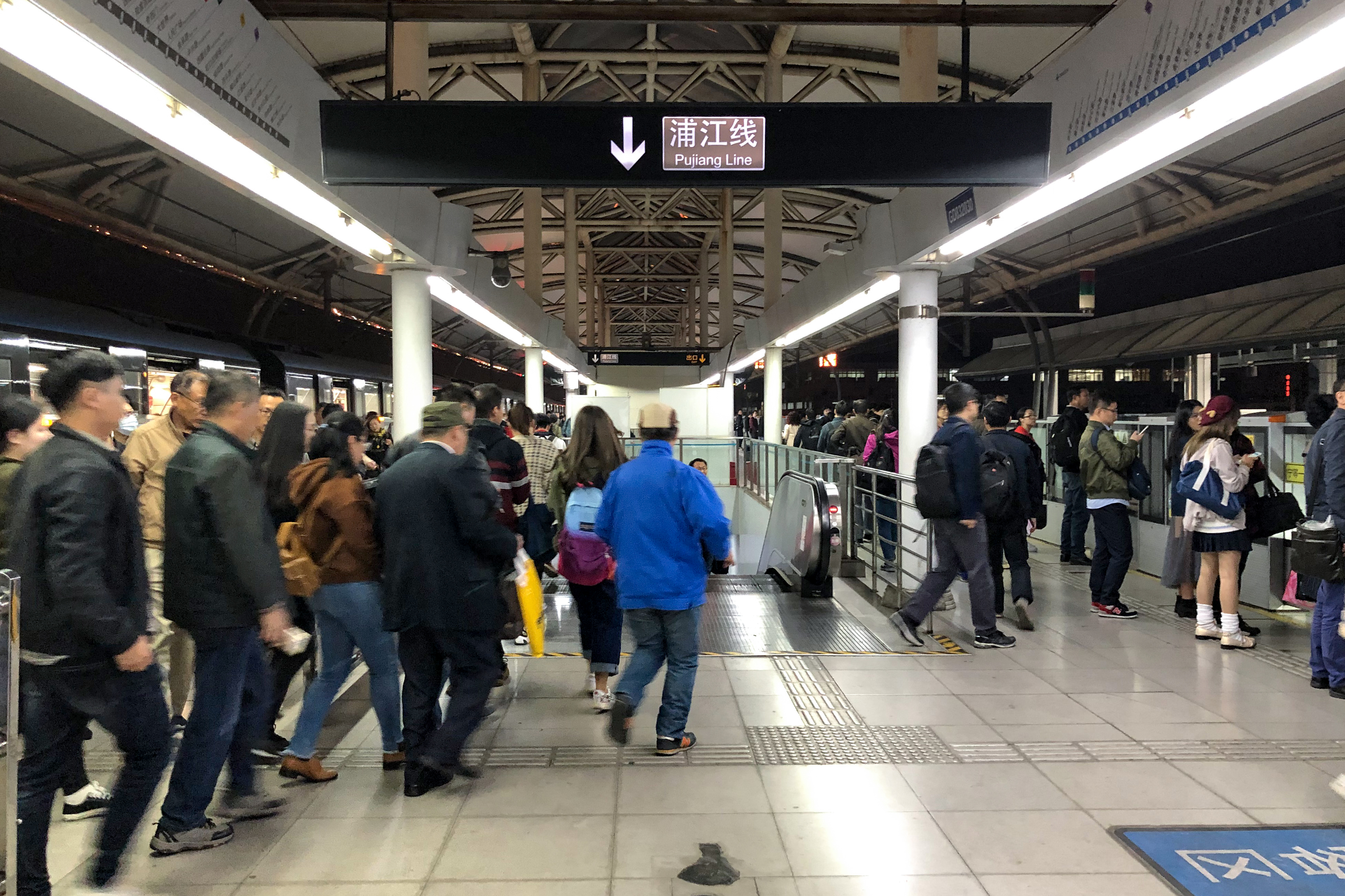 Rushing for what? Pujiang Line or those buses?